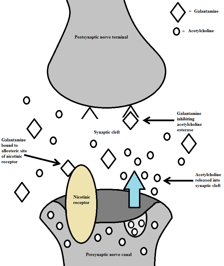 synapse